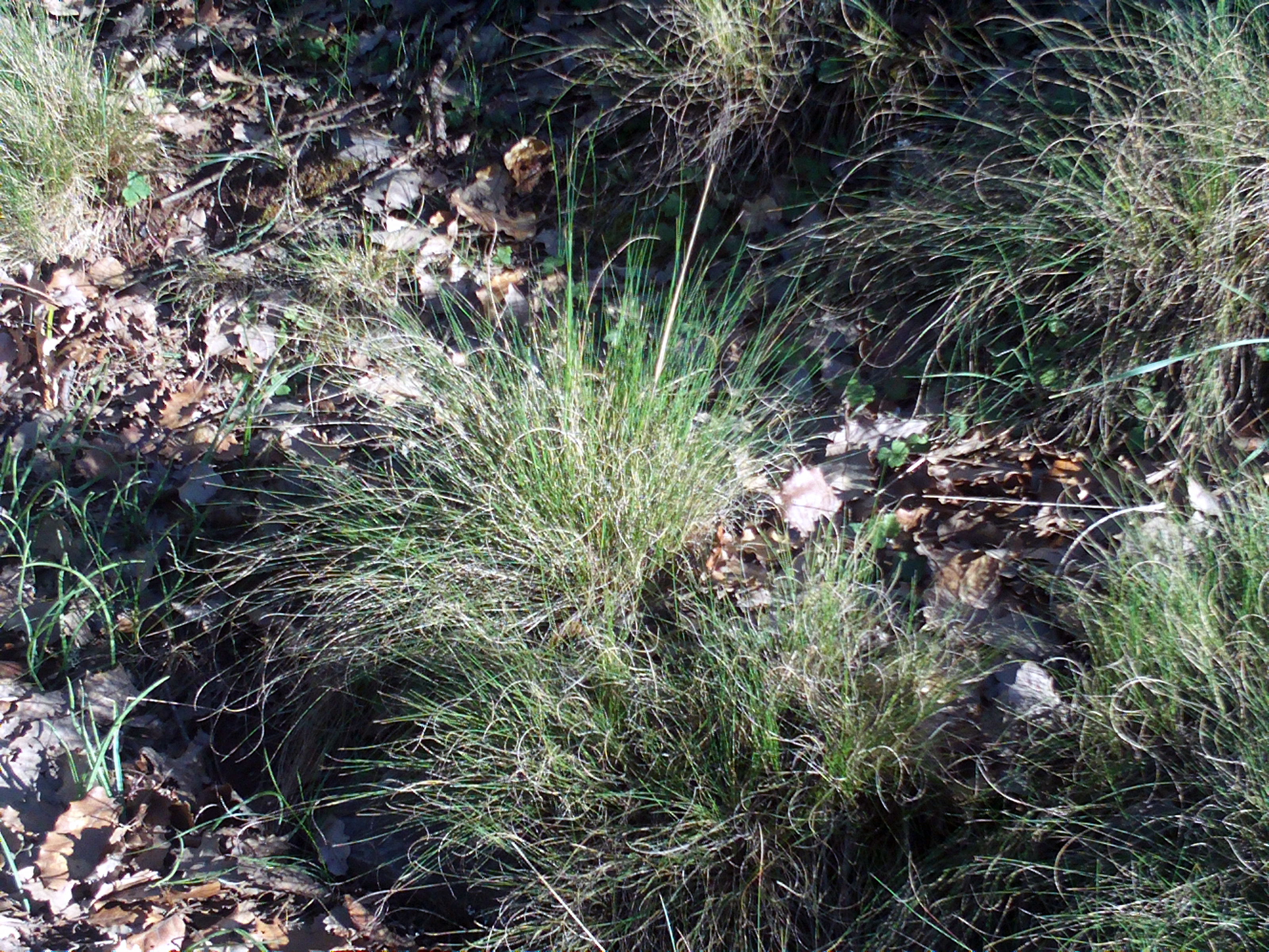 Festuca elegans habit, Valderrepisa Sierra Madrona, Spain